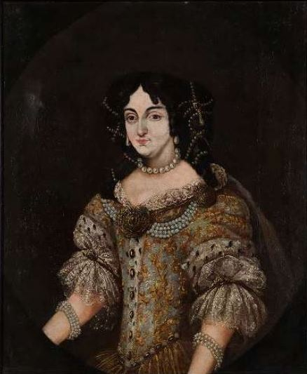 Ilona Zrínyi, Countess Rákóczi and Thököly